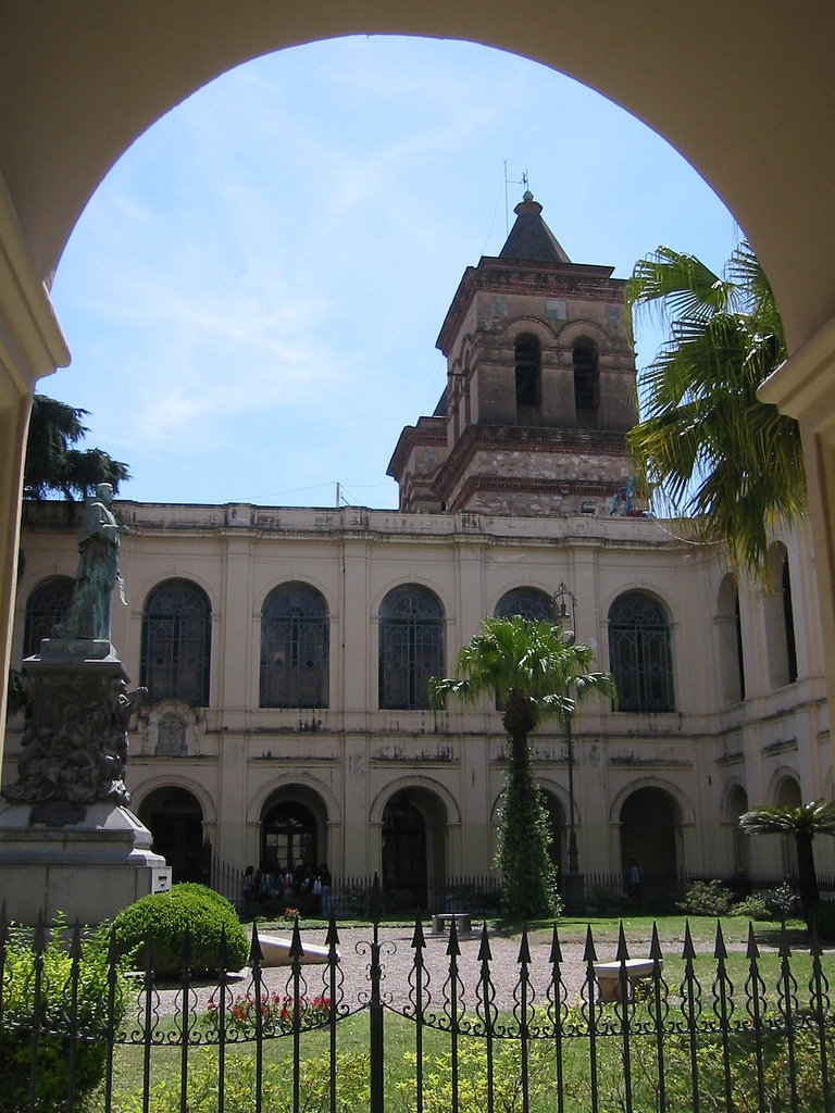 Colonial Square in Córdoba, with the Compañía de Jesús Church